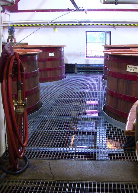 Washbacks at Aberfeldy Distillery. These large vessels hold the fermenting wash which is then distilled to produce whisky. Their content is pictured in Contents of washback - .uk - 477253.jpg.